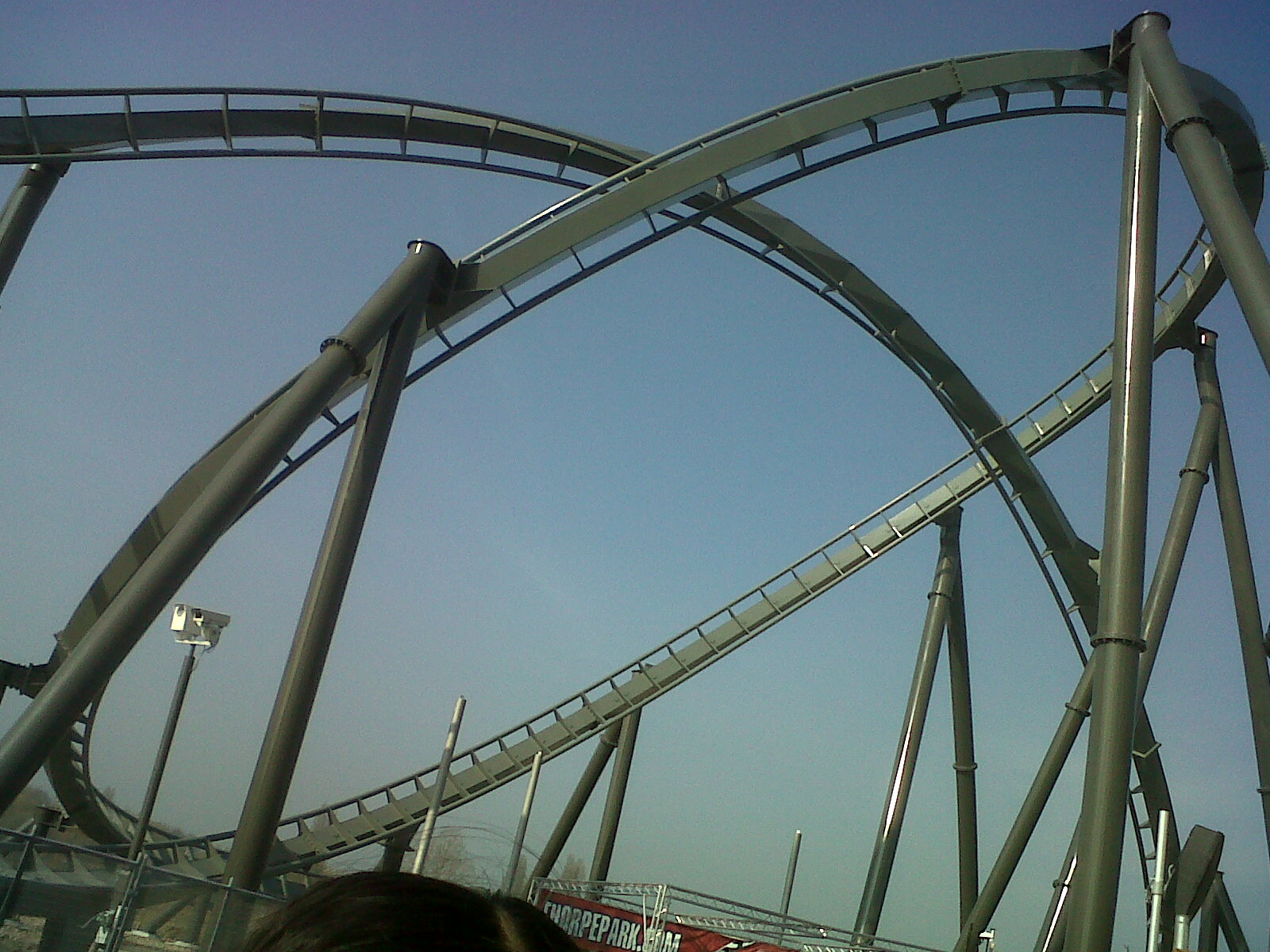 The Swarm loop and corkscrew, Thorpe Park, England